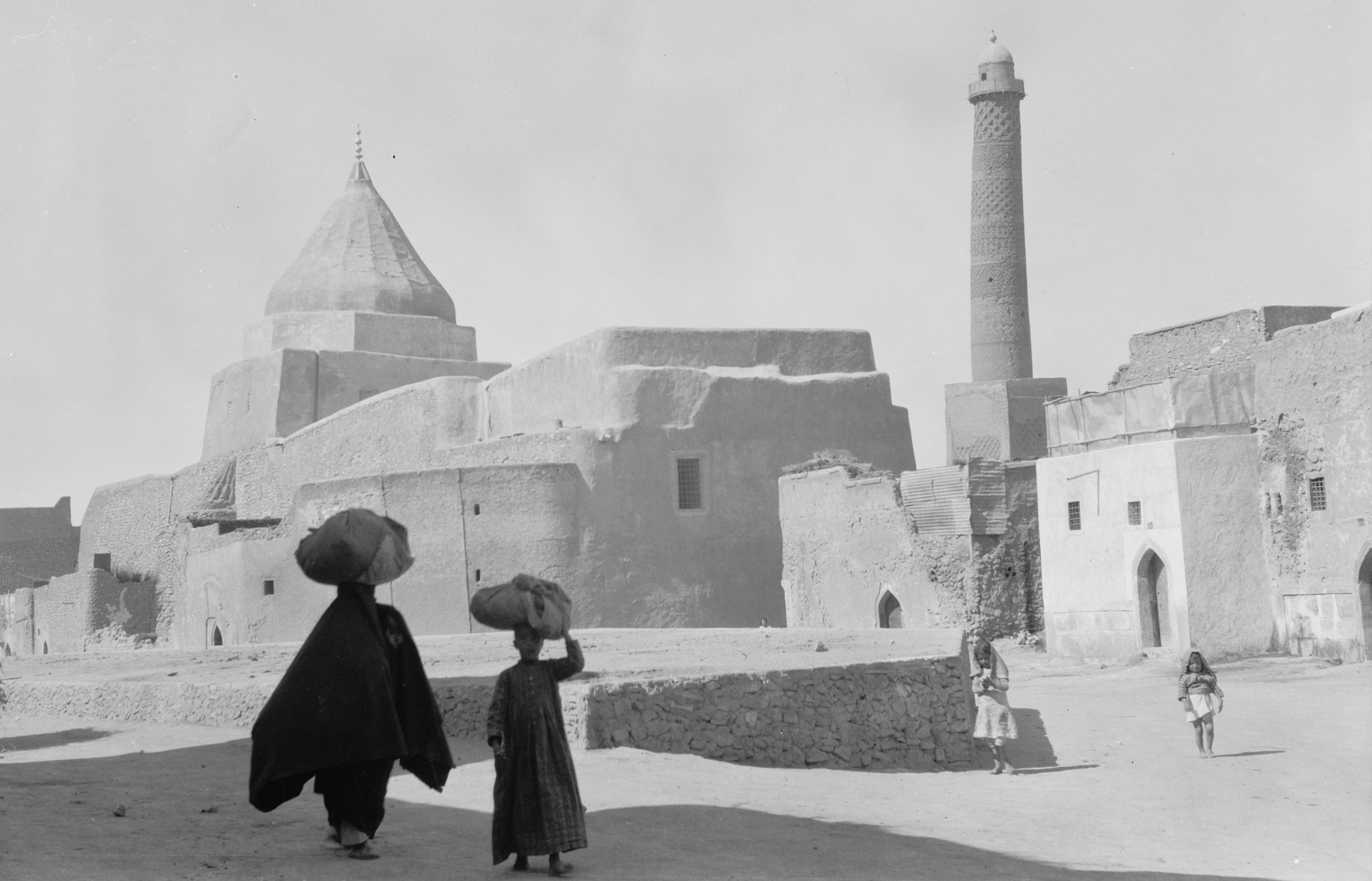 Iraq. Mosul. In the heart of ancient Mosul, showing a Yezidi shrine to the left and the Nouri Mosque minaret to the right.